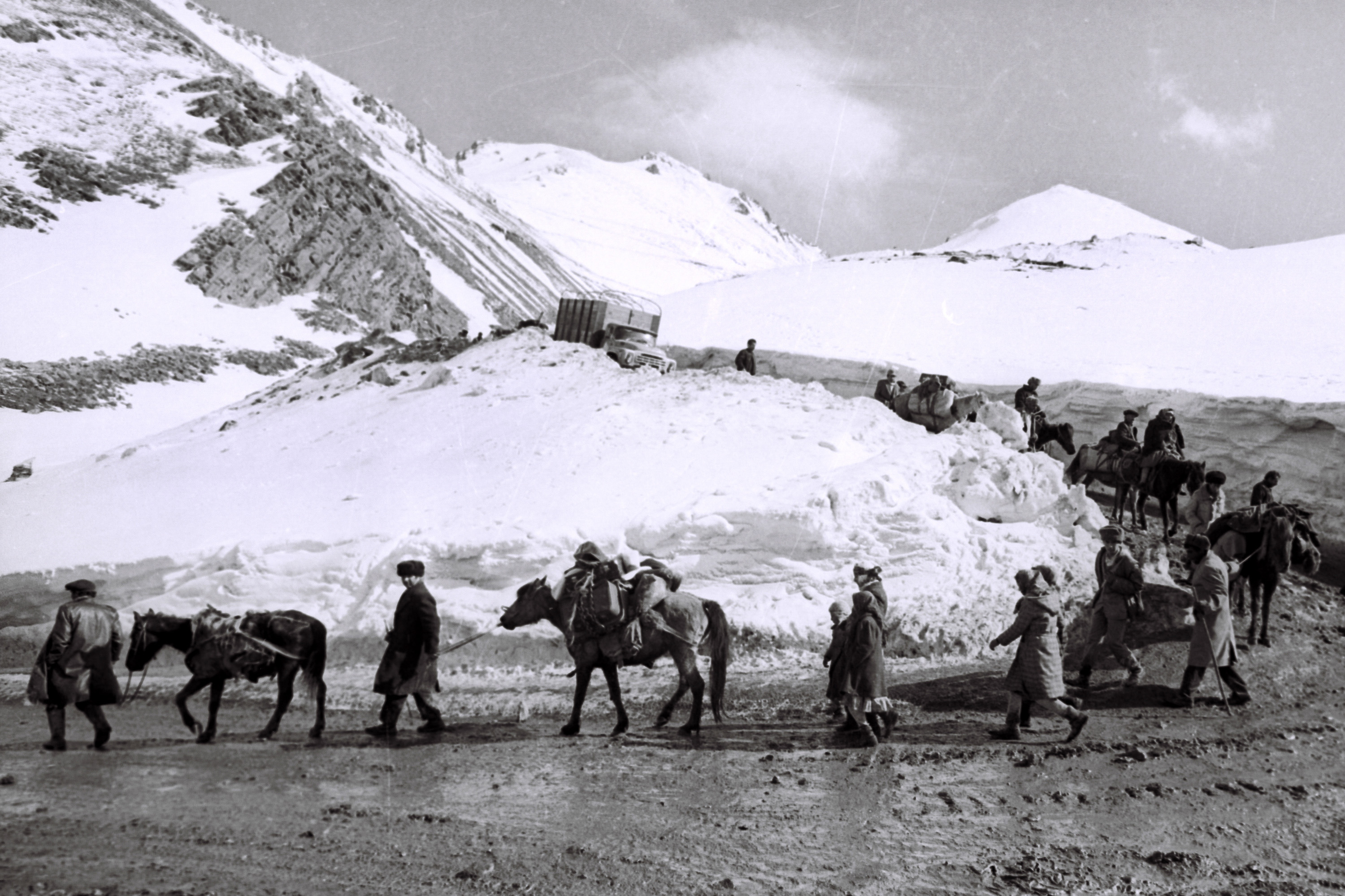 Azerbaijani refugees from Kalbajar. Kalbajar Rayon, Murovdag.